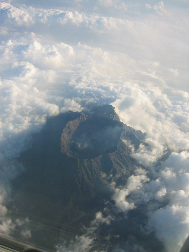 Mount Raung . Photo was taken from Malaysia Airlines flight MH853 (from Kuala Lumpur to Denpasar, Bali).